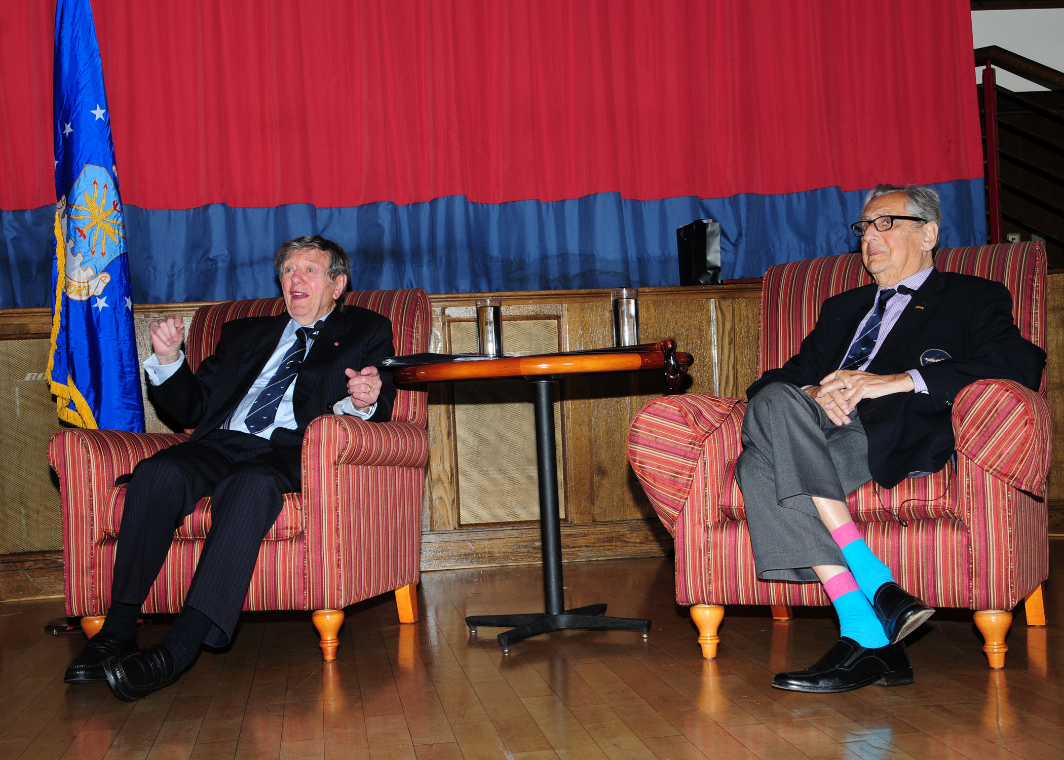 From left, retired RAF Air Commodore Charles Clarke and Andy Wiseman, both former prisoners of war during World War II, speak during a Prisoner of War/Missing in Action luncheon at RAF Mildenhall, England, Sept. 19, 2012. The two former RAF air crewmen were held captive in the German prison camp Stalag Luft III and visited Mildenhall to share their stories during POW/MIA remembrance week.